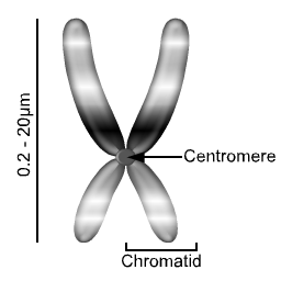 By Richard Wheeler (Zephyris) 2005; A representation as a condensed eukaryotic chromosome.